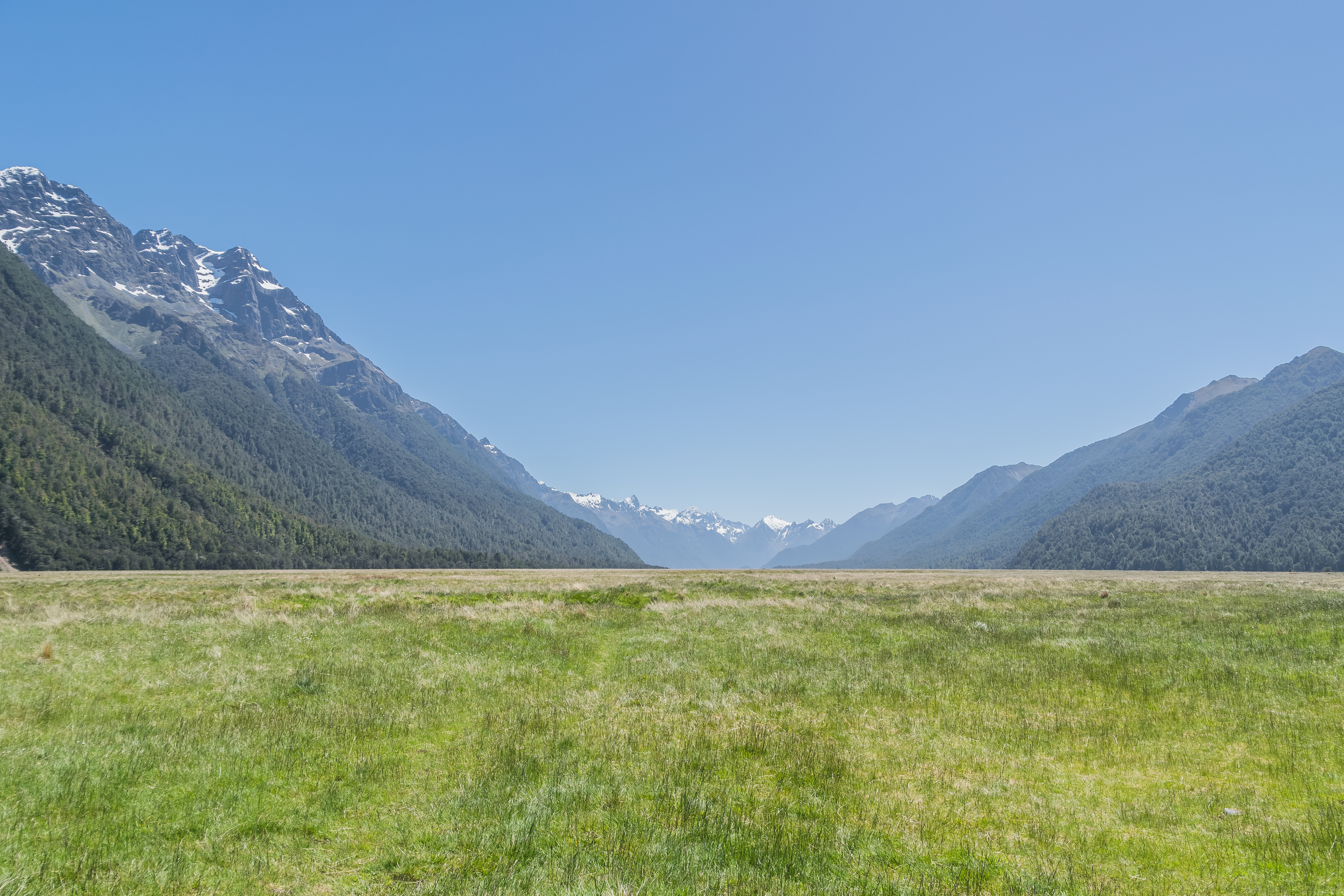 Eglinton Valley in Fiordland National Park, South Island of New Zealand